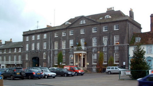 The Angel Hotel Bury St Edmunds The Angel hotel Bury St Edmunds Suffolk. The hotel is actually a 15th century former coaching inn with connection to Charles Dickens, who stayed in the hotel whilst giving readings of his books in the Athenaeum, mentioned the hotel in The Pickwick Papers.